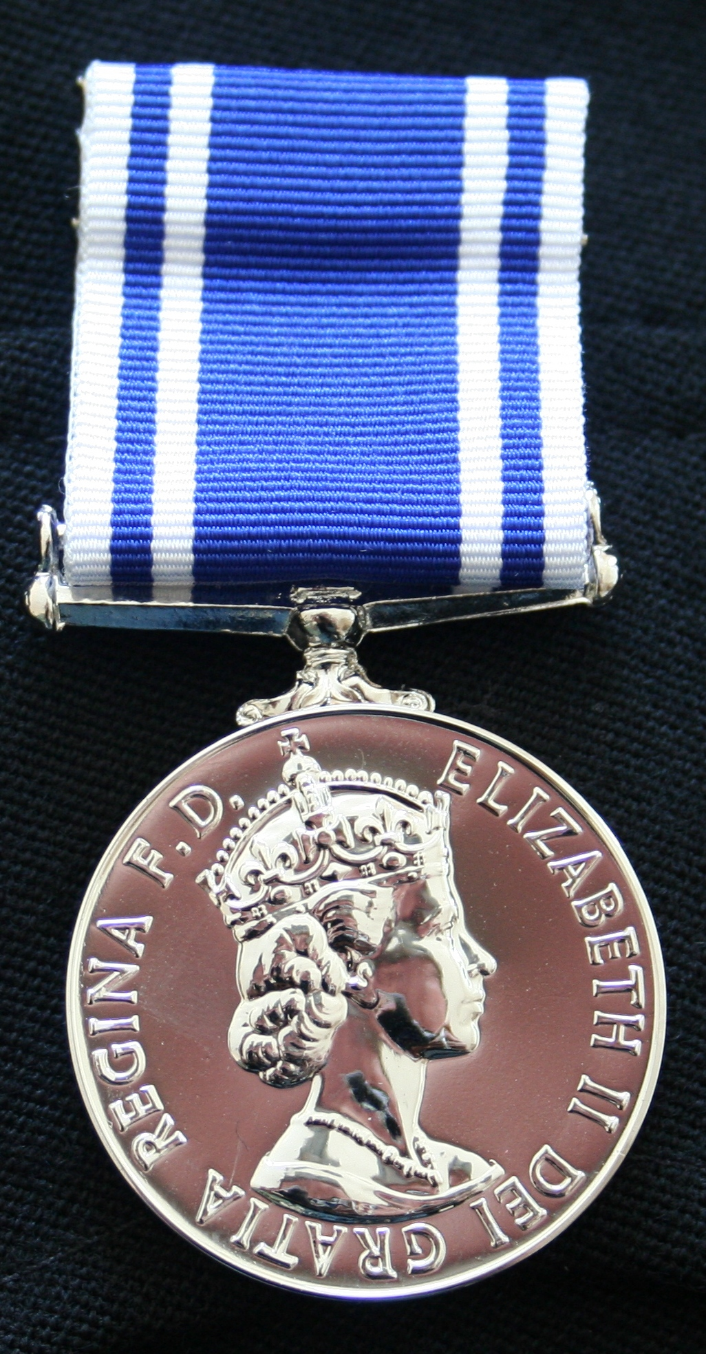 Photograph of a Police LSGC Medal awarded in September 2011 The award reads: 'The Police Long Service and Good Conduct Medal was instituted under Royal Warrant by King George VI in 1951 and is awarded as a mark of the Sovereign's appreciation of long and meritorious service rendered by members of the Police Forces of the United Kingdom. For an officer to become eligable for this award the Chief Constable must make a recommendation to the Home Secretary, and in doing so, is required to certify the following: 1. That an officer has been a serving member of a Police Force. 2. That the officer has served efficiently for the qualifying period. 3. That the officer's character has been very good.'